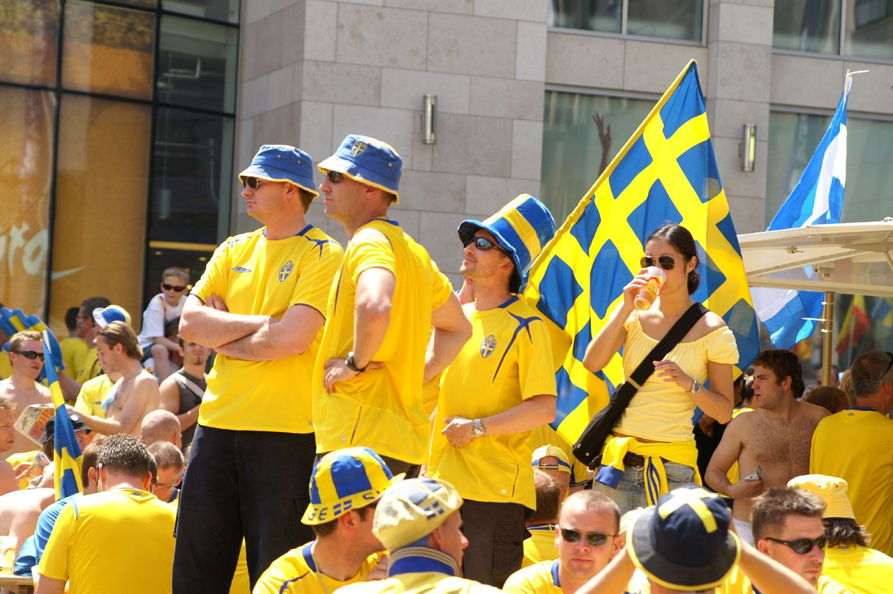 Swedish fans in Dortmund 10th June 2006